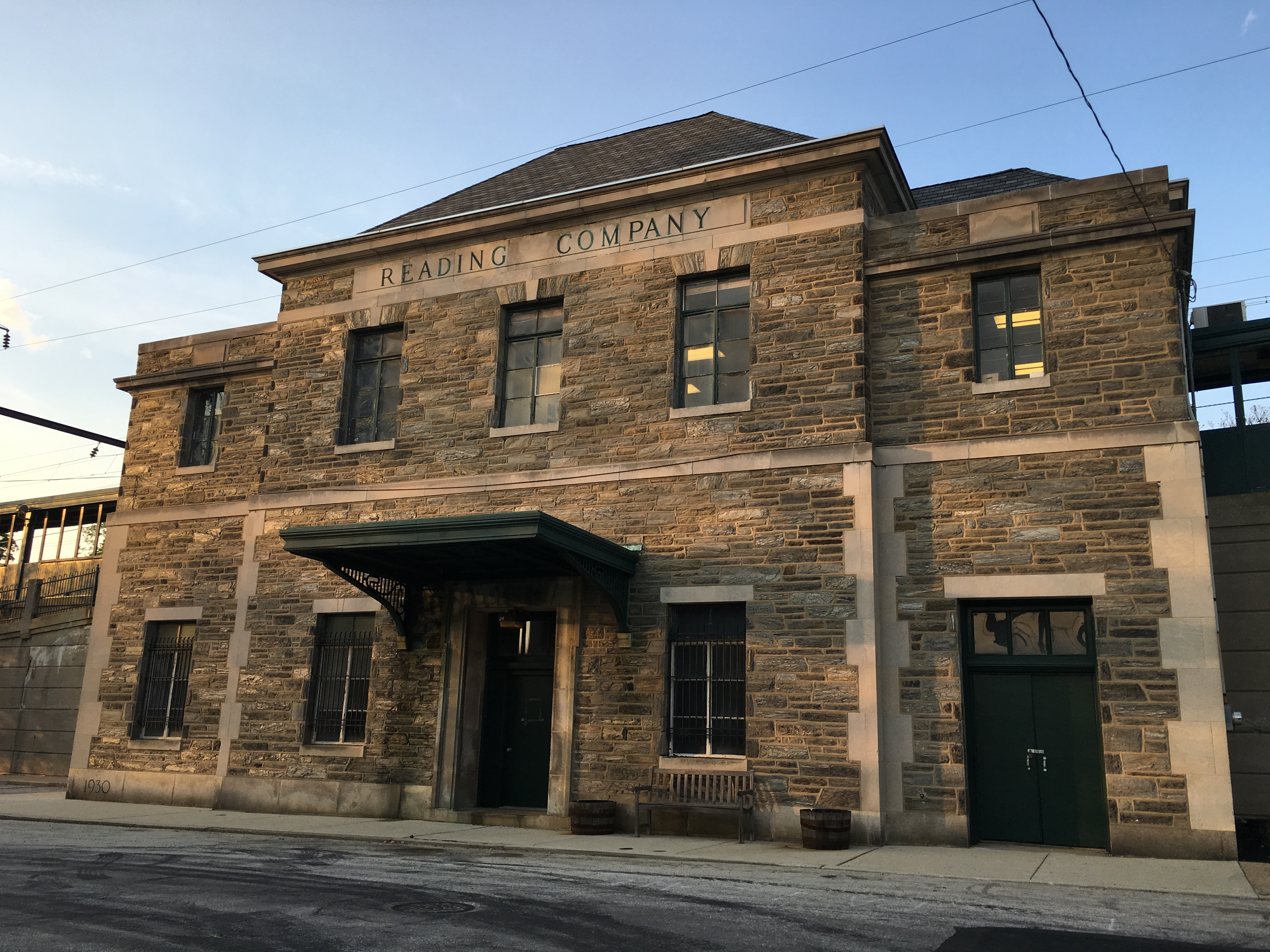 The former Reading Railroad station house, built 1930